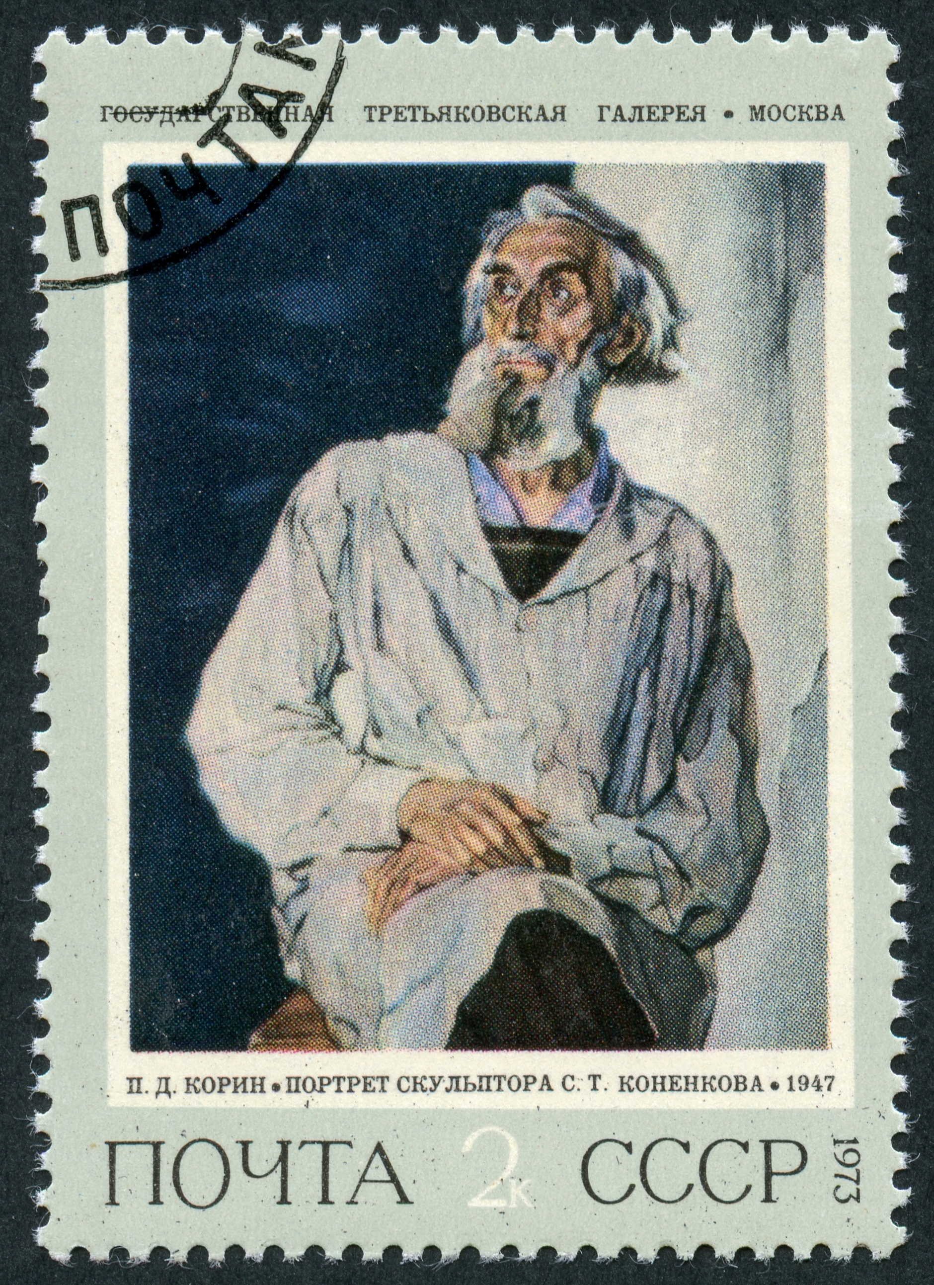 A USSR stamp